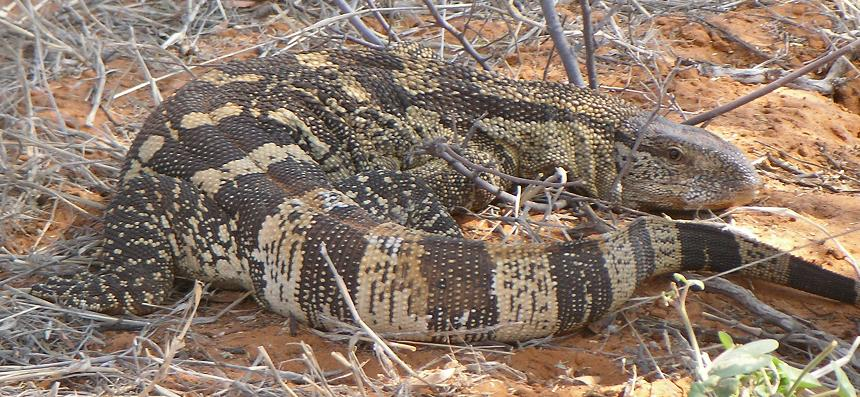 White-throated monitor, likely female, east of Van Zylsrus in the Northern Cape, South Africa. It is generally smaller than the central and northern African taxa.